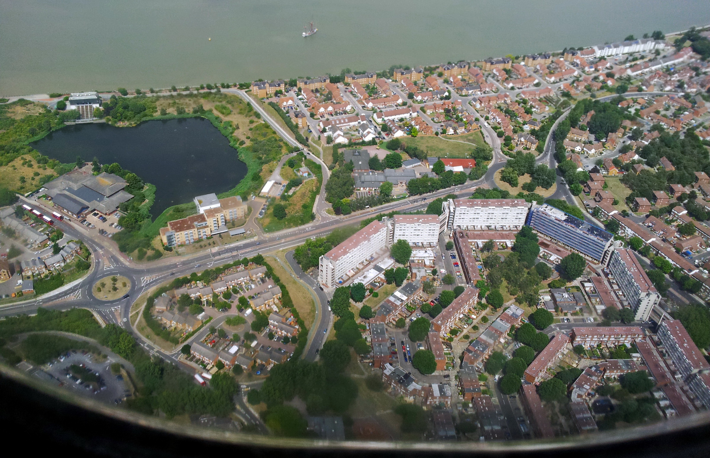 Aerial view of Thamesmead, South East London. The lake is Thamesmere. The main east-west road is the A2041.